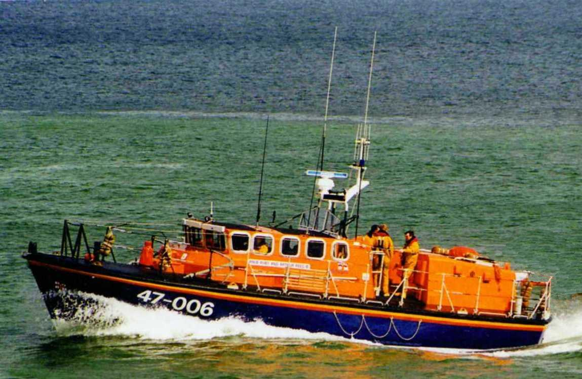 Post card image of the Cromer lifeboat Ruby and Arthur Reed II circa 1999